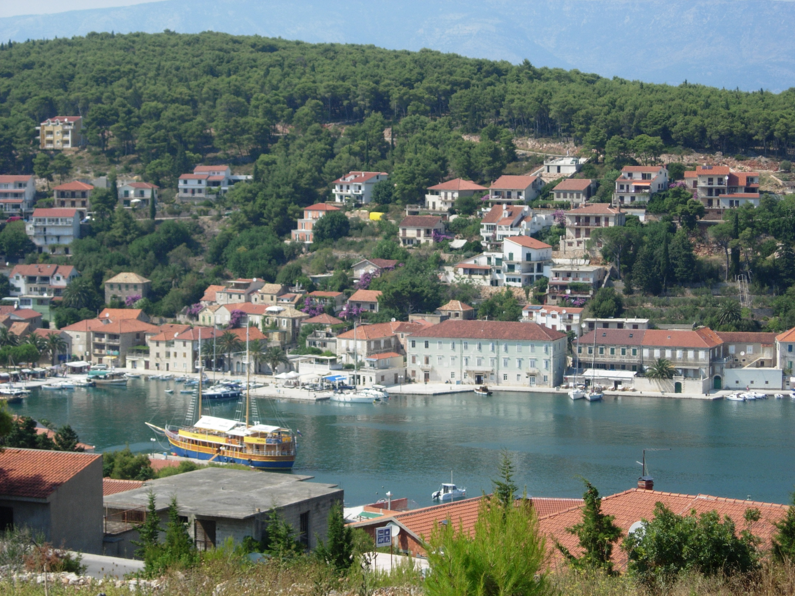 Jelsa, Burkovo, city hall.